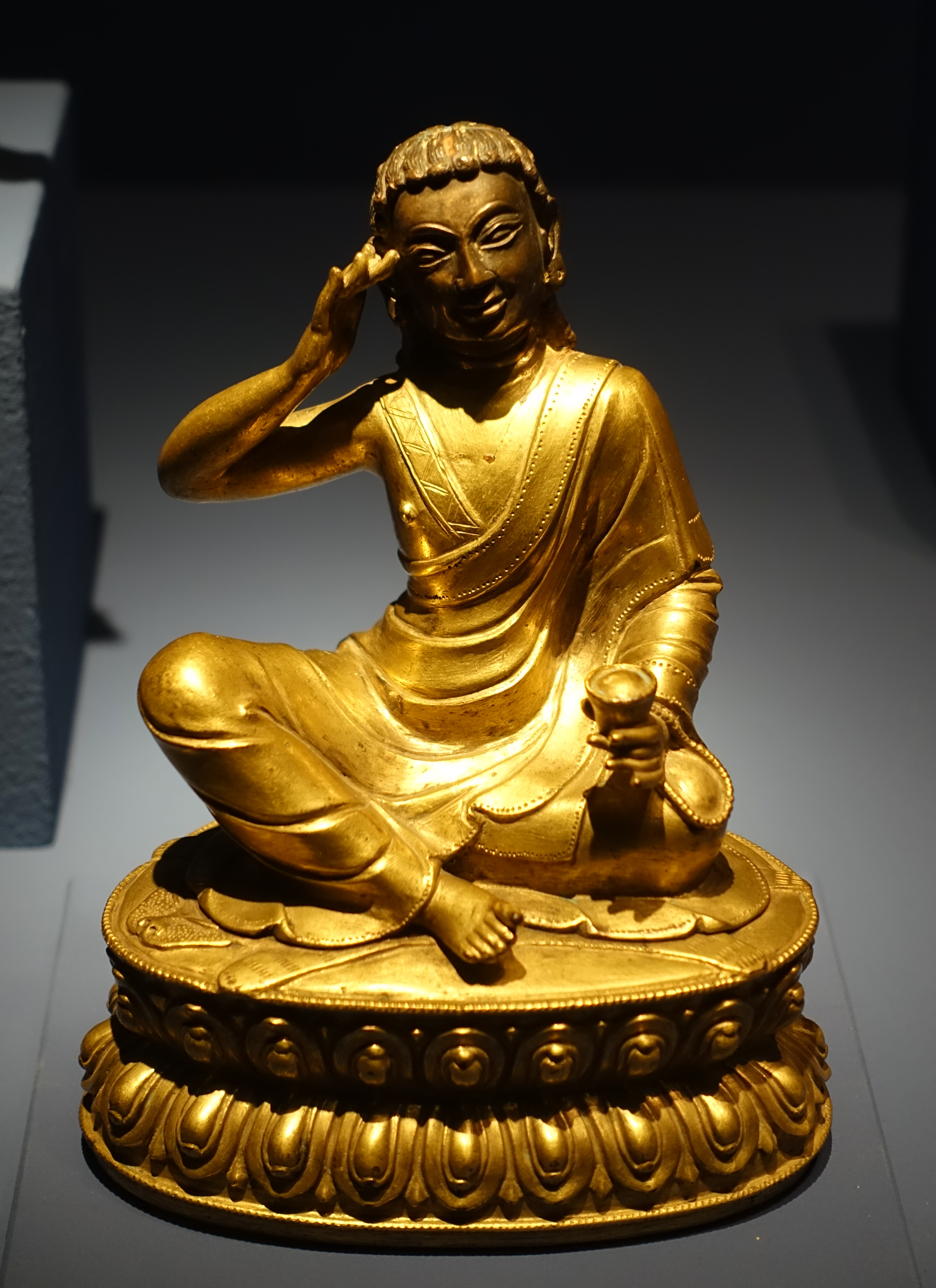 Exhibit in the Linden-Museum - Stuttgart, Germany.